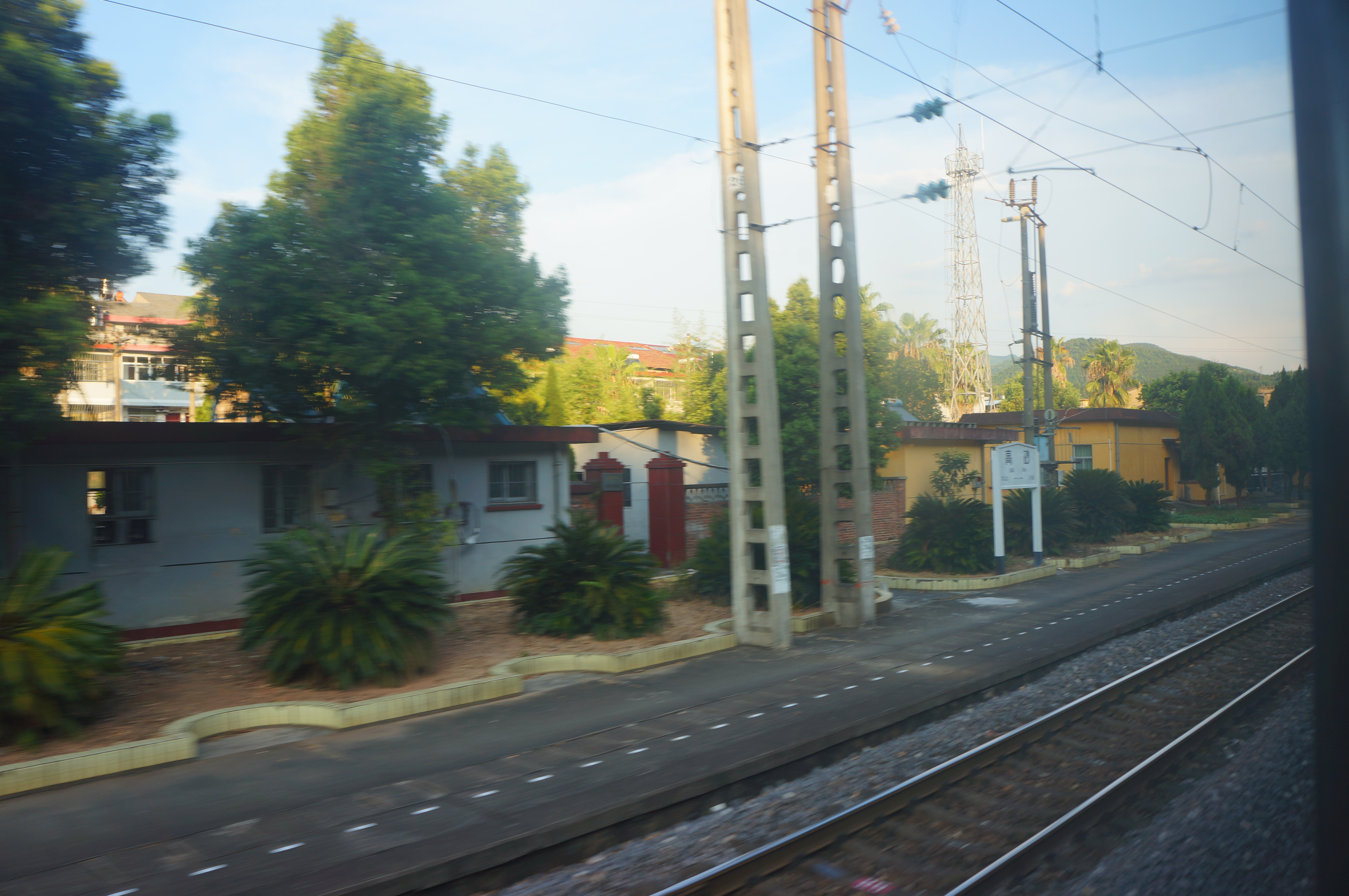 201708 Gaosha Station